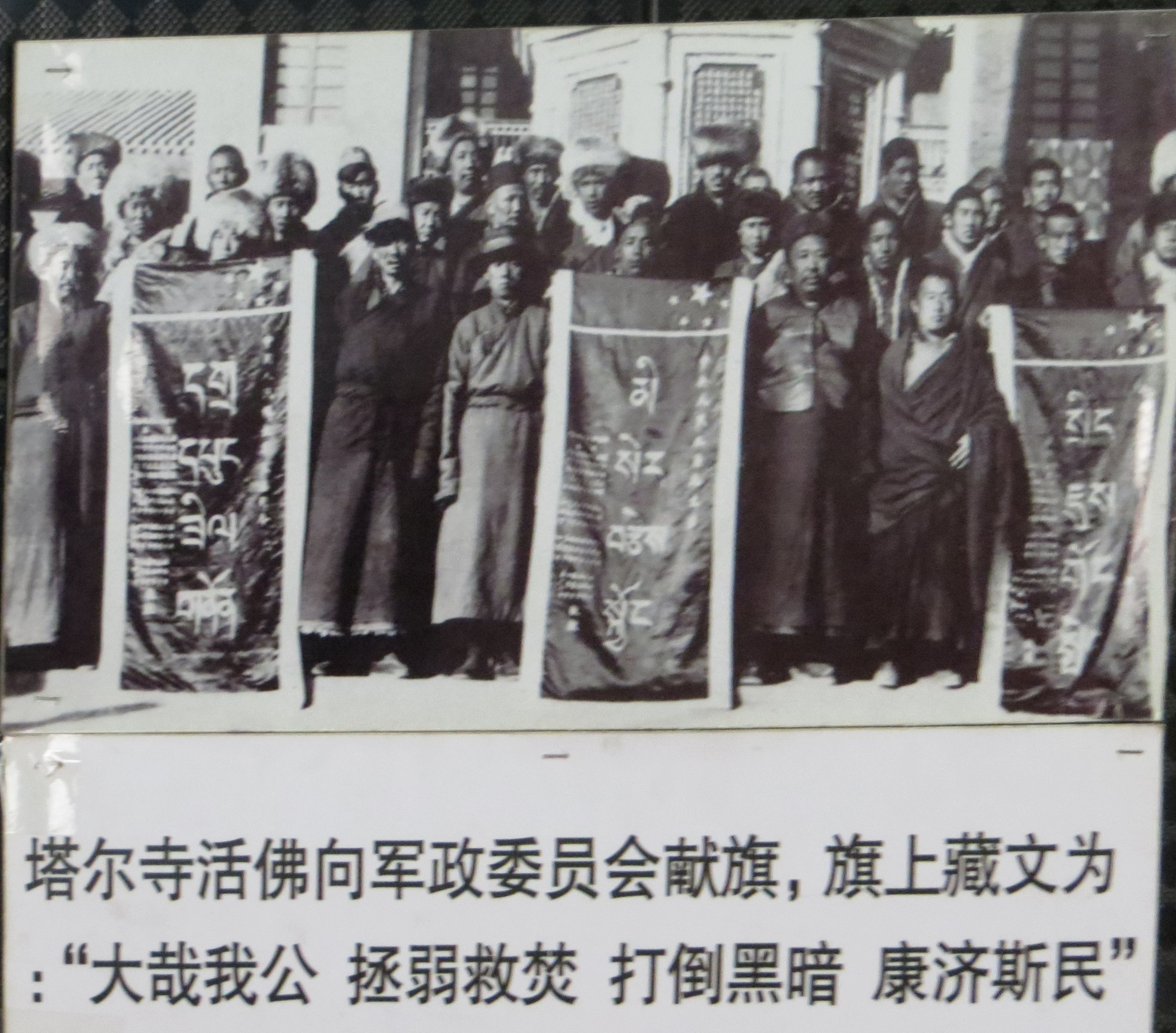 At Kumbum monastery, lamas, bouddhists and Huis military working for Guomindang. Picture situated in Qinghai Xining Ma Bufang Museum (青海西宁马步芳公馆) at Xining. The flags represent People Republic of China stars and text in Zang tibetan. Under the picture, the notice say : 塔尔寺活佛向军政委员会献旗，旗上藏文为：“大哉我公 拯弱救焚 打倒黑暗 康济斯民“. this seems to be related to Tujia lieutnant Liao Hansheng (廖汉生)[1]